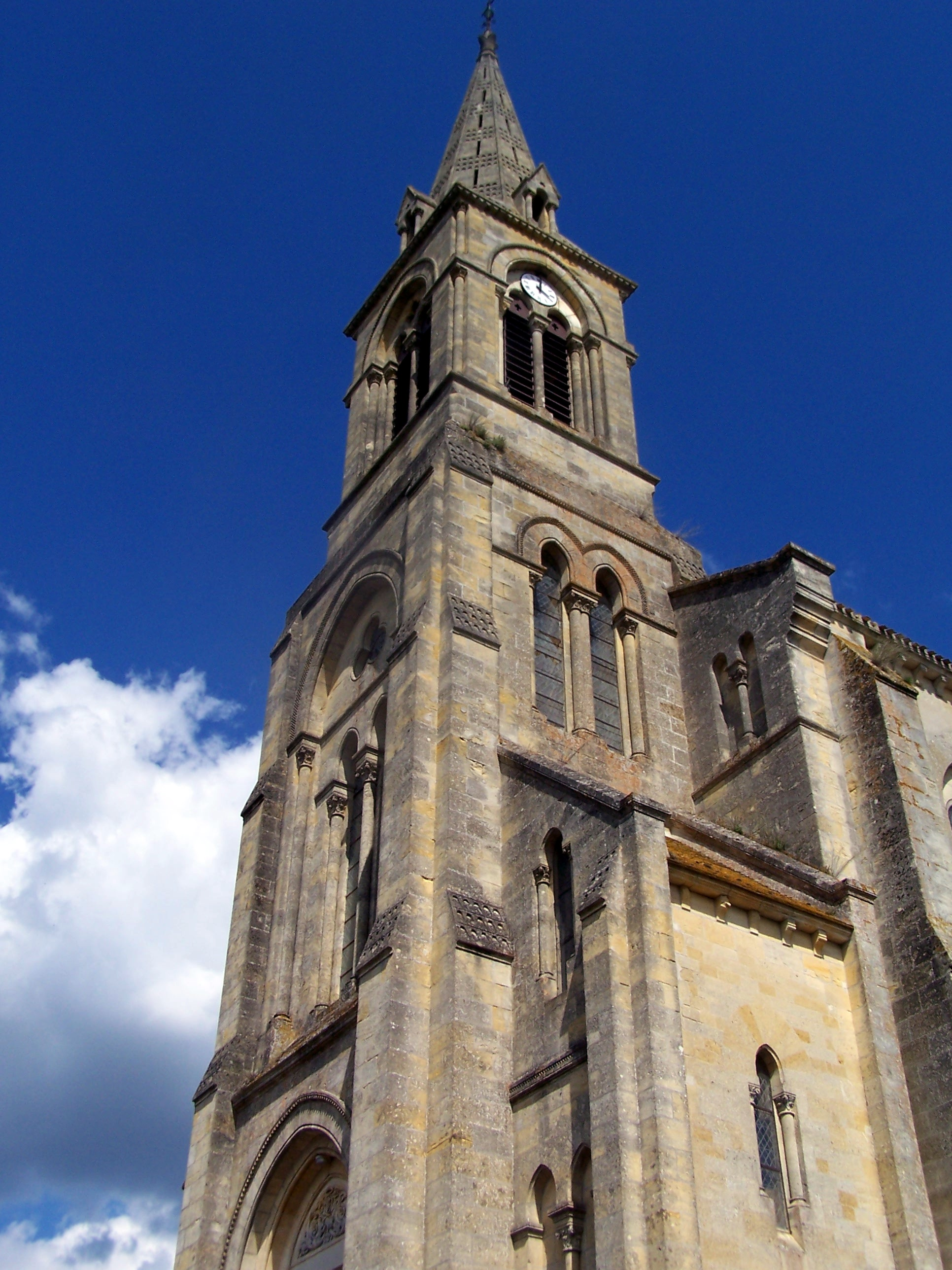 Our Lady's church of Tabanac (Gironde, France)